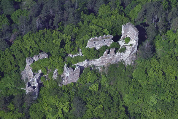 Revište Castle, Slovakia, aerial photography